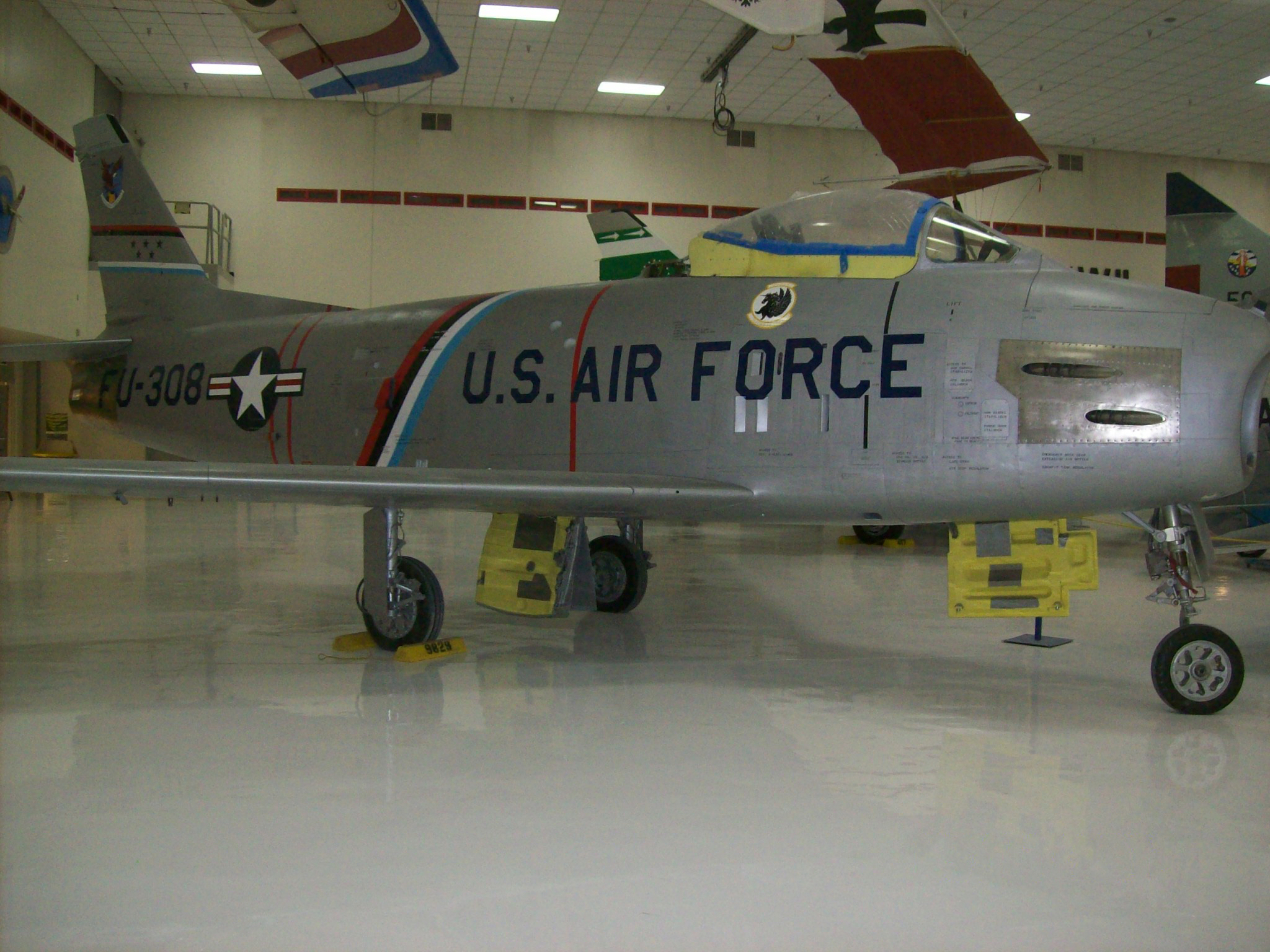 No. 53-1308 F-86H taken at Wings Over the Rockies Air and Space Museum, Denver, CO. by Lance Barber, volunteer curator. This photo was taken on 11 May 2011, after new paint returning it to its primary service colours. Free to public domain. Request the standard "Courtesy of" for outside Wikipedia. Thank you.